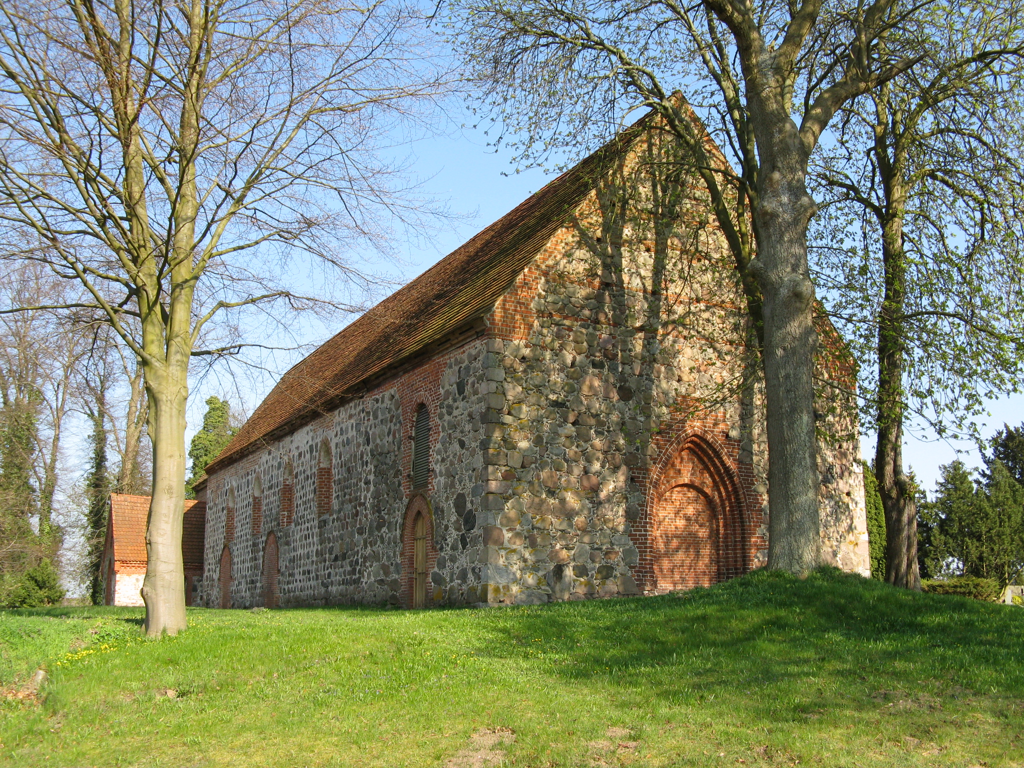 Church of Lüdershagen near Hoppenrade, district Güstrow, Mecklenburg-Vorpommern, Germany